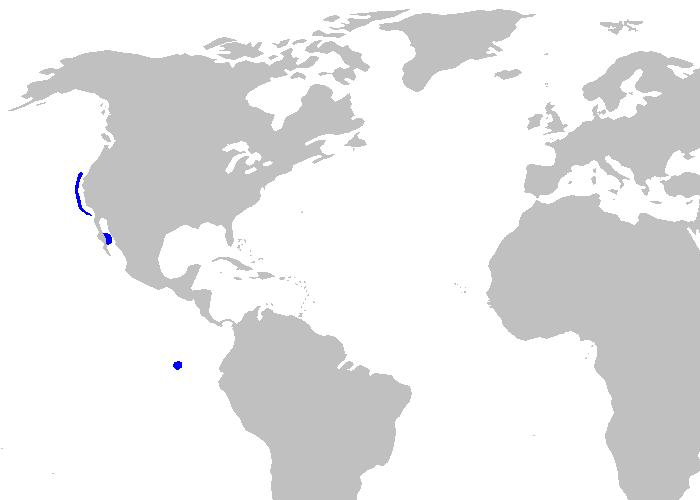 Distribution map for Apristurus kampae